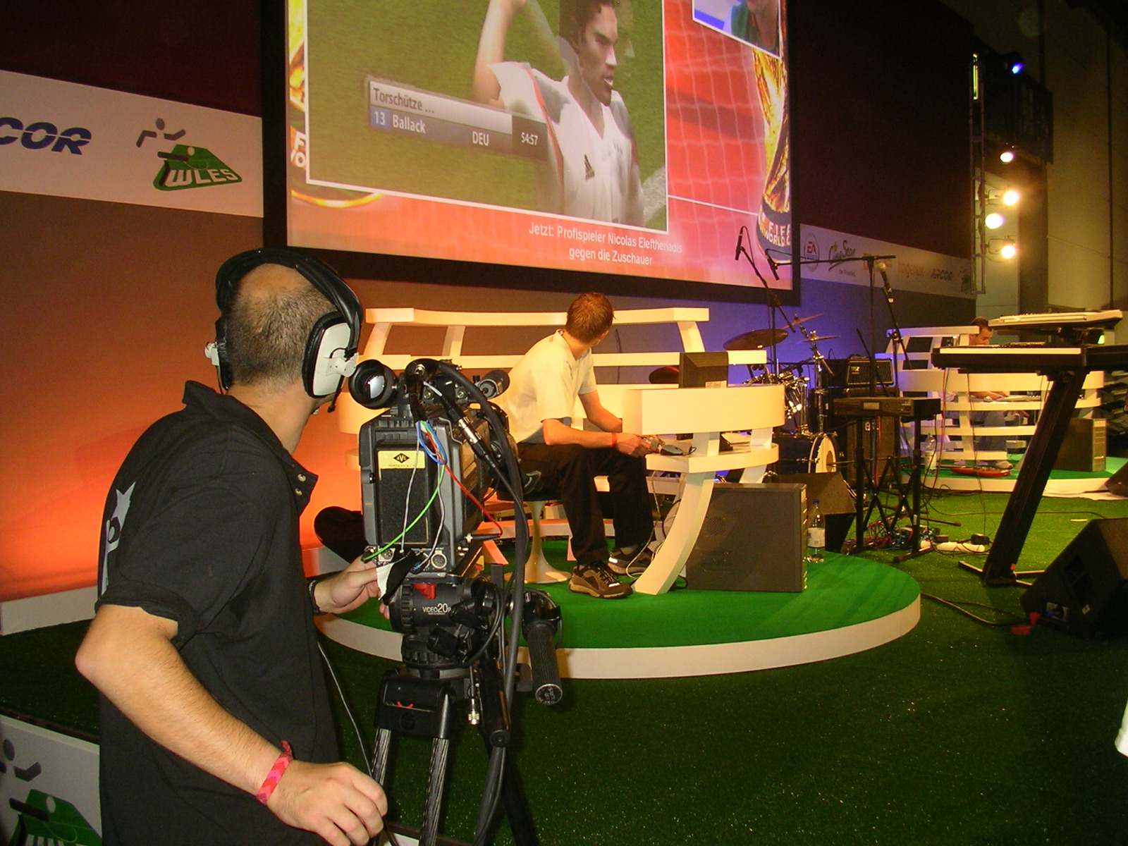 Recording of screen-shot - die eSport Bundesliga at the Games Convention